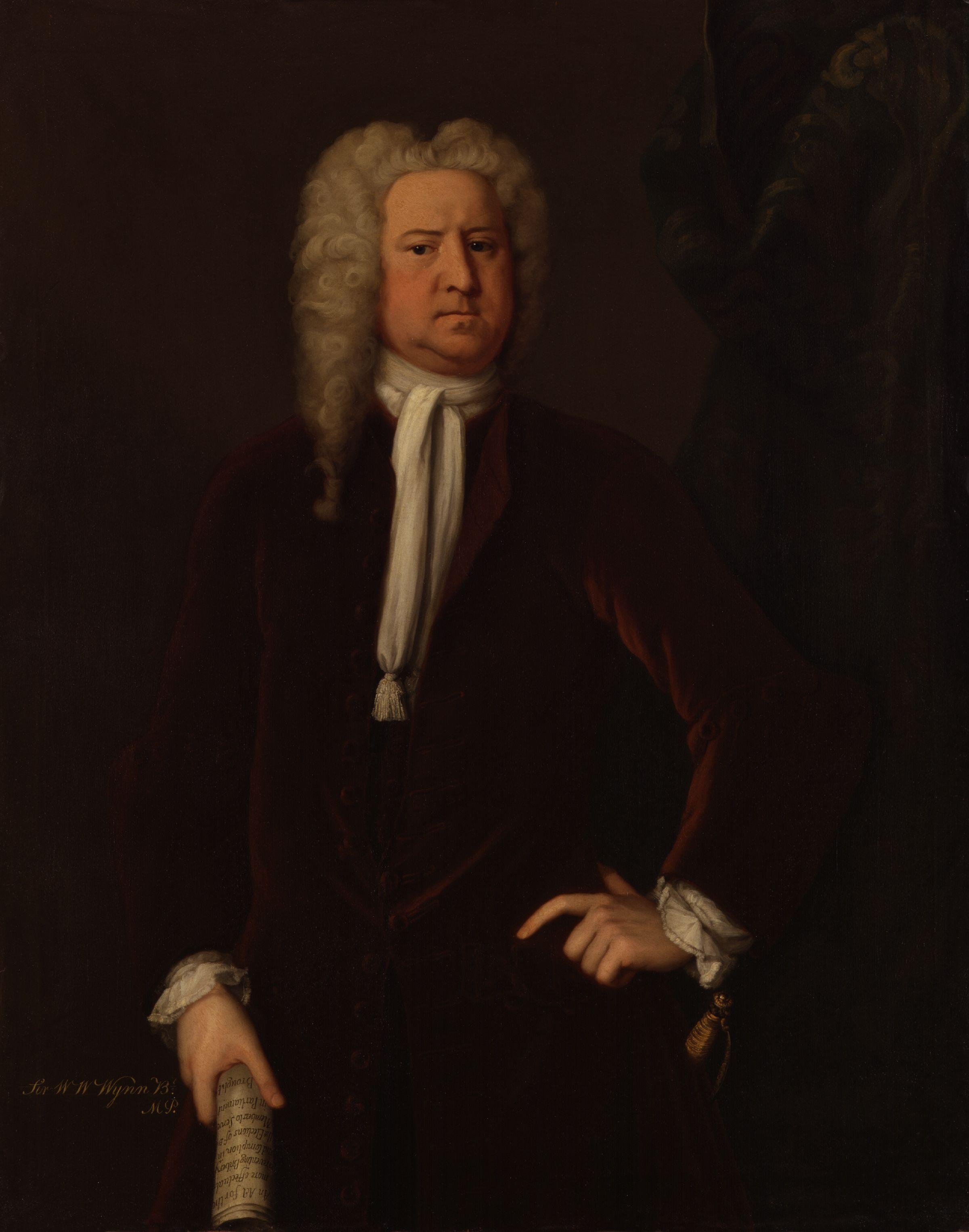 All images in this batch have been confirmed as author died before 1939 according to the official death date listed by the NPG.